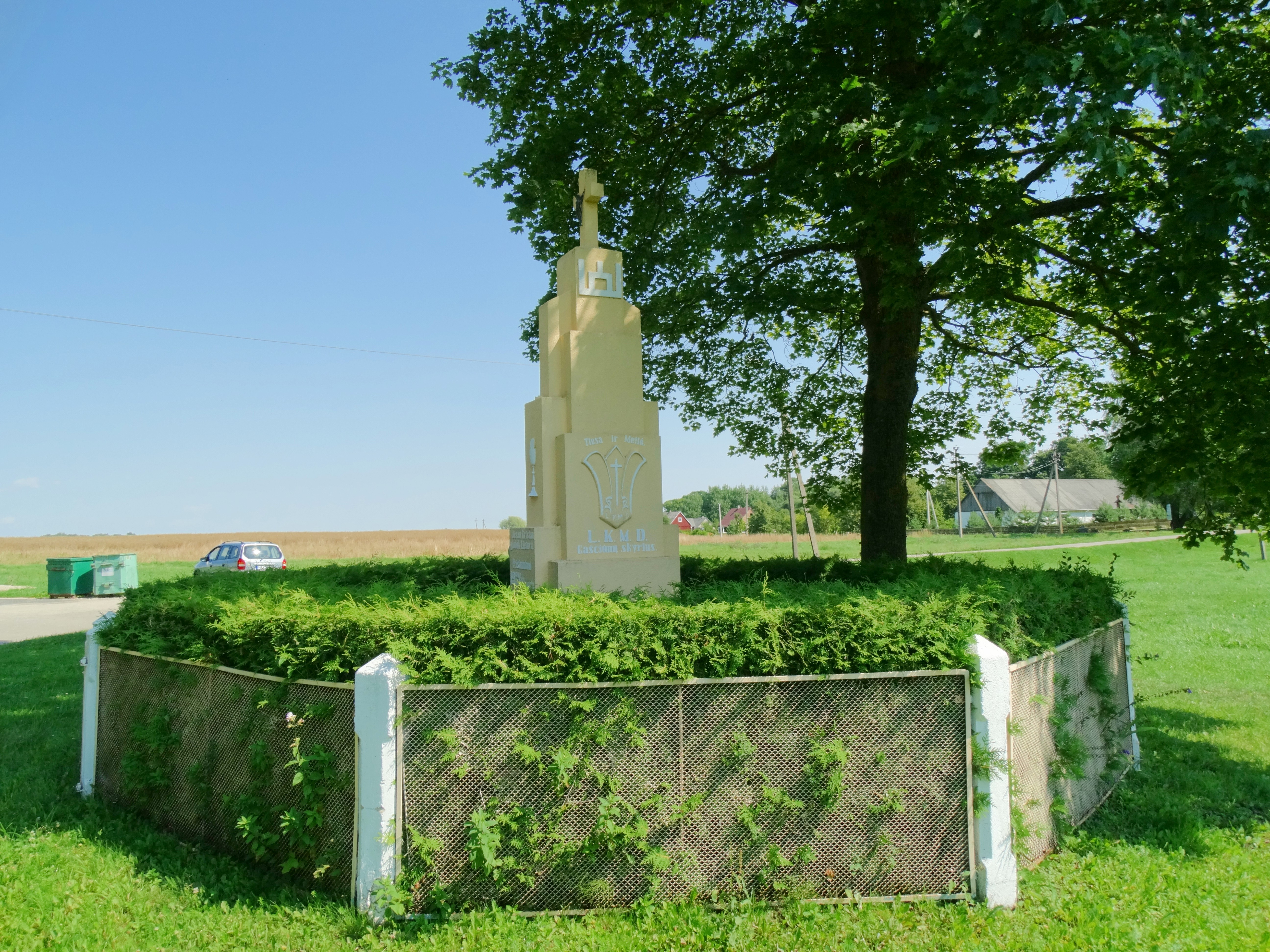 Monument, Gasčiūnai, Joniškis district, Lithuania